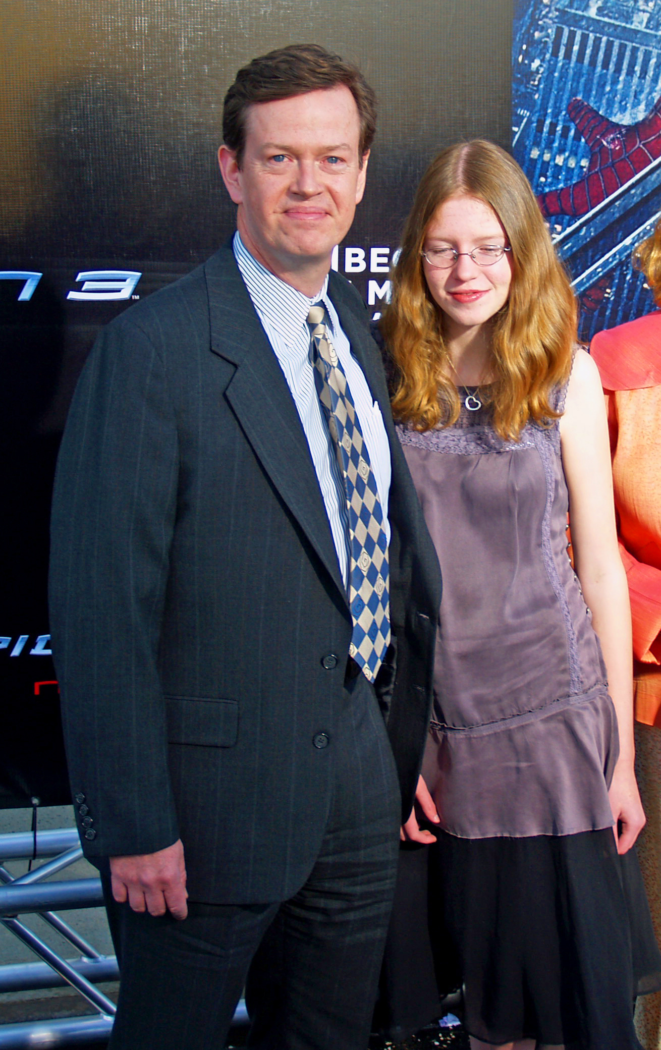 Dyland Baker and daughter.